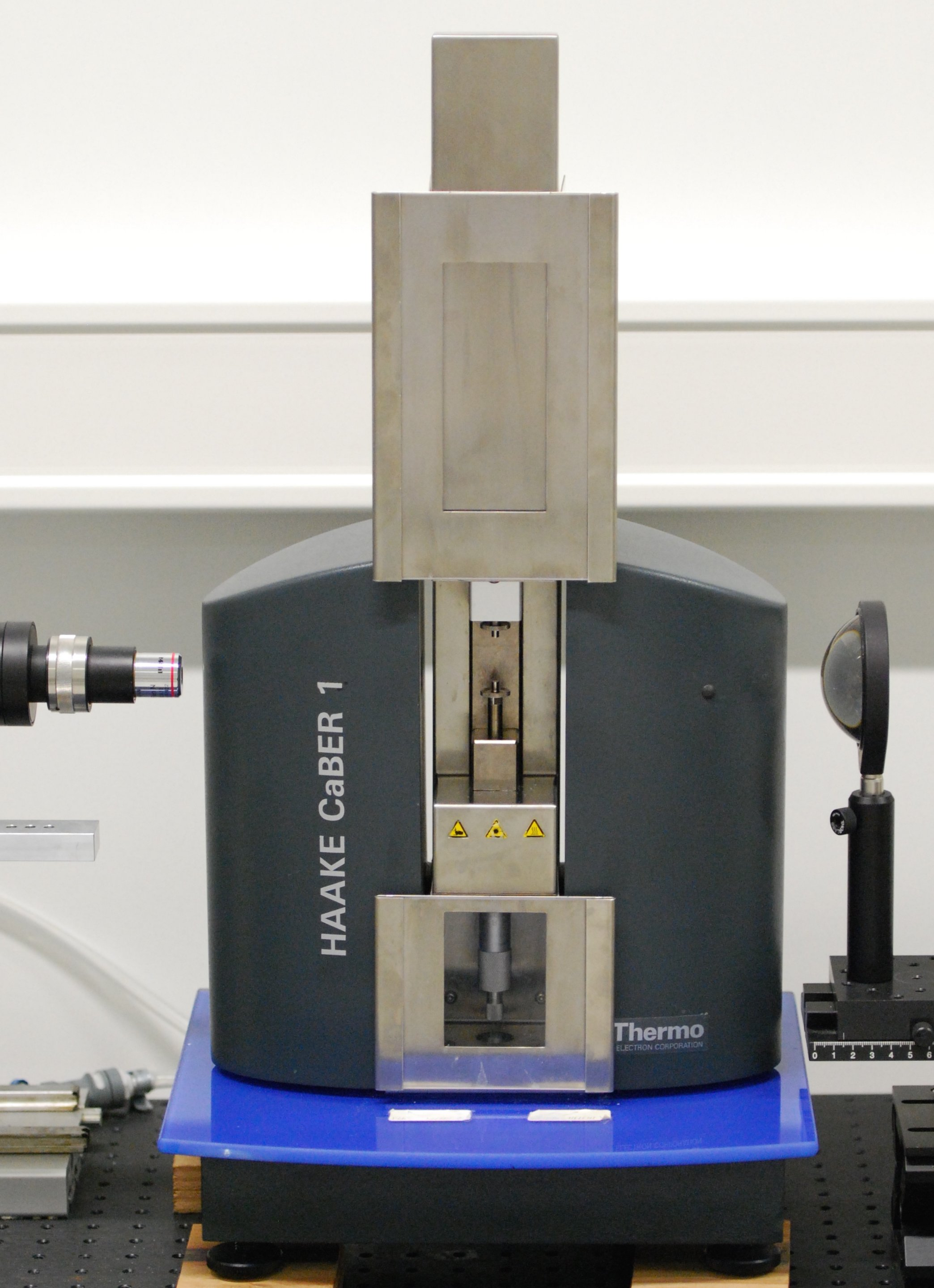 Picture of a CaBER